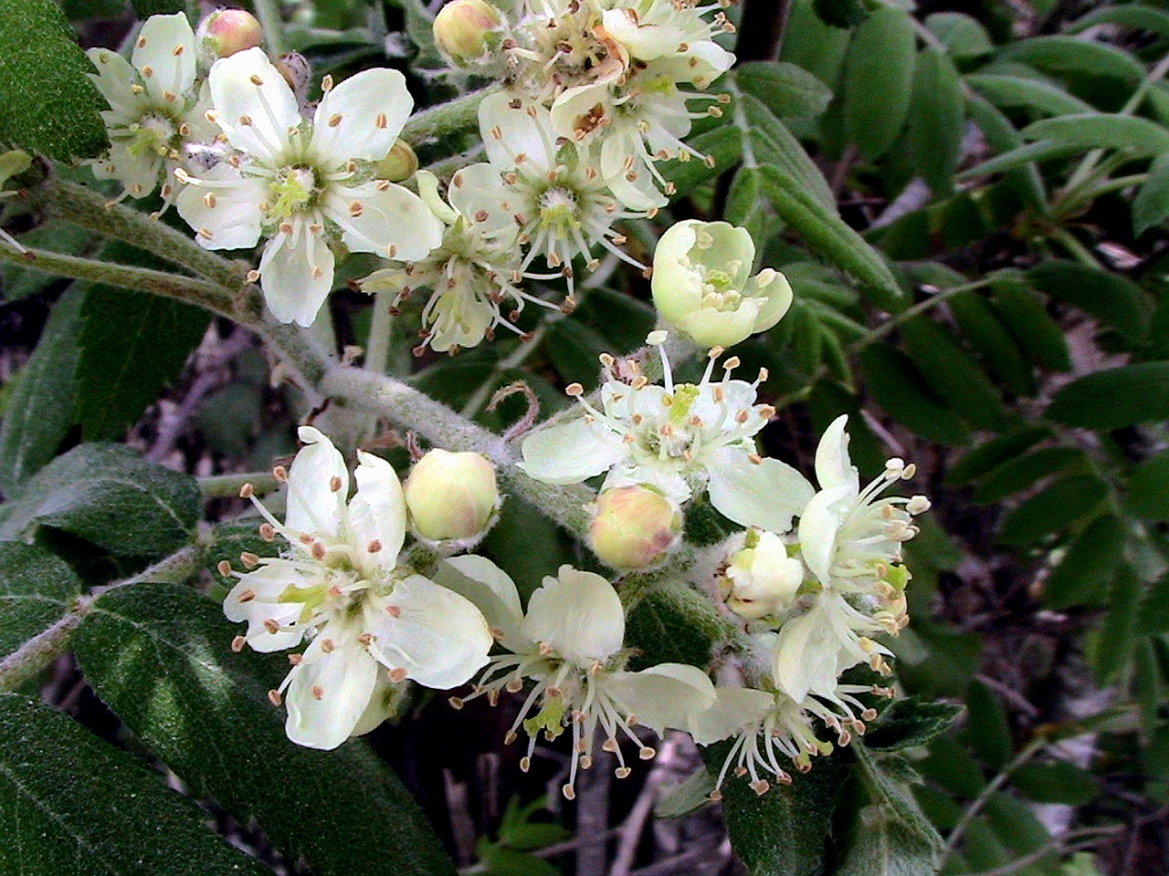 Sorbus domestica. In Torà (Segarra-Catalunya). To 590 m. altitude